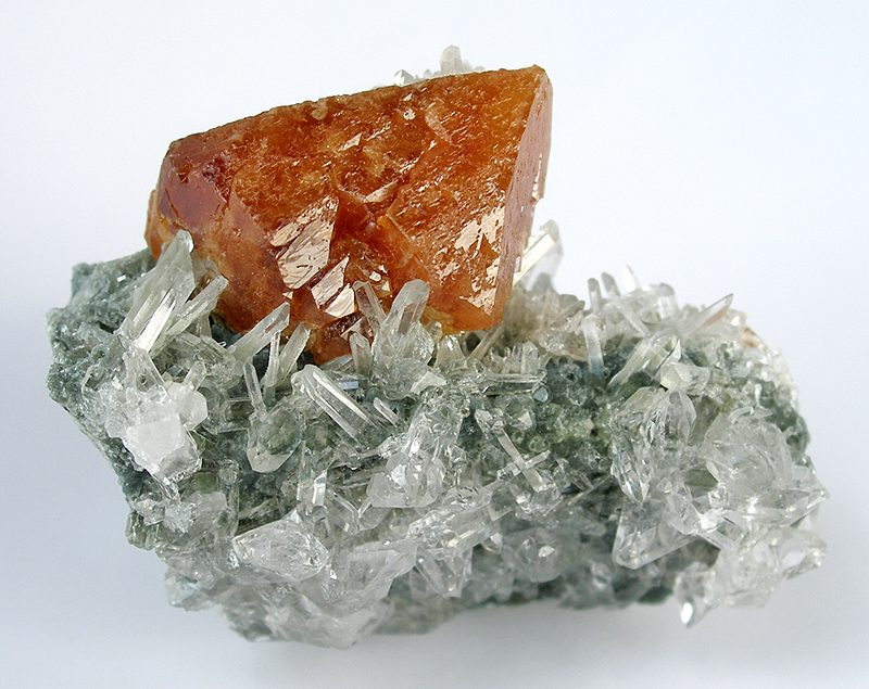 Scheelite Locality: Gharmung area, Skardu District, Baltistan, Northern Areas, Pakistan (Locality at ) Size: miniature, 5.3 x 4.1 x 3.1 cm Scheelite This specimen features a starkly contrasted, sharp, freestanding, 2,75-cm long crystal (2.5 cm and 2.2 cm in depth and width). The crystal is complete all around and is extremely 3-dimensional, with (obviously) great aesthetics upon its perch!